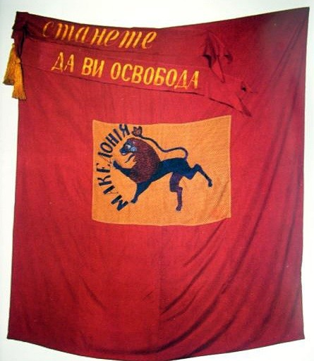 Insurgent Banner used in the Razlovci Uprising which states "Awaken to liberate Macedonia"